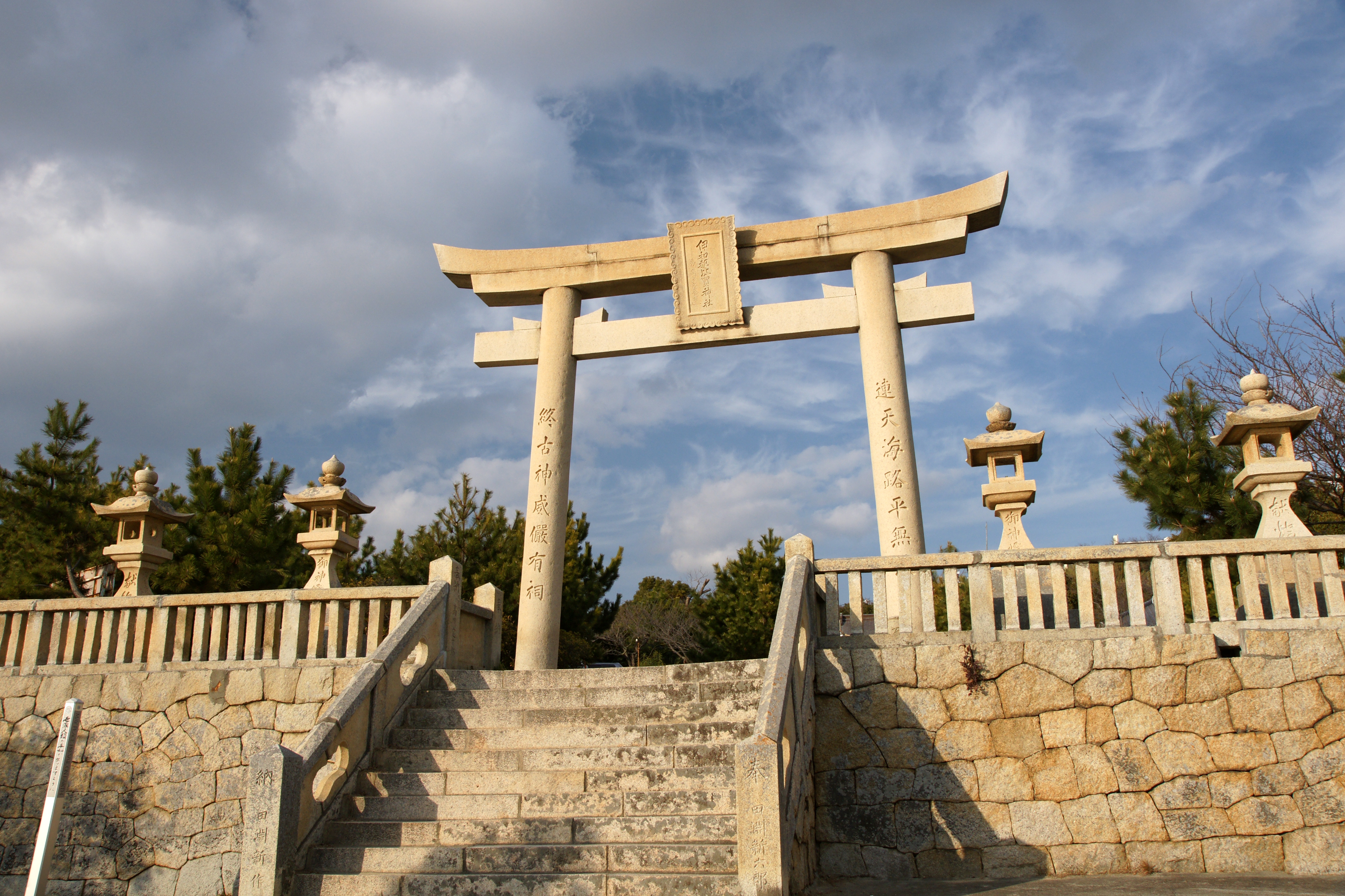 Iwatsuhime Shrine in Akō, Hyogo prefecture, Japan